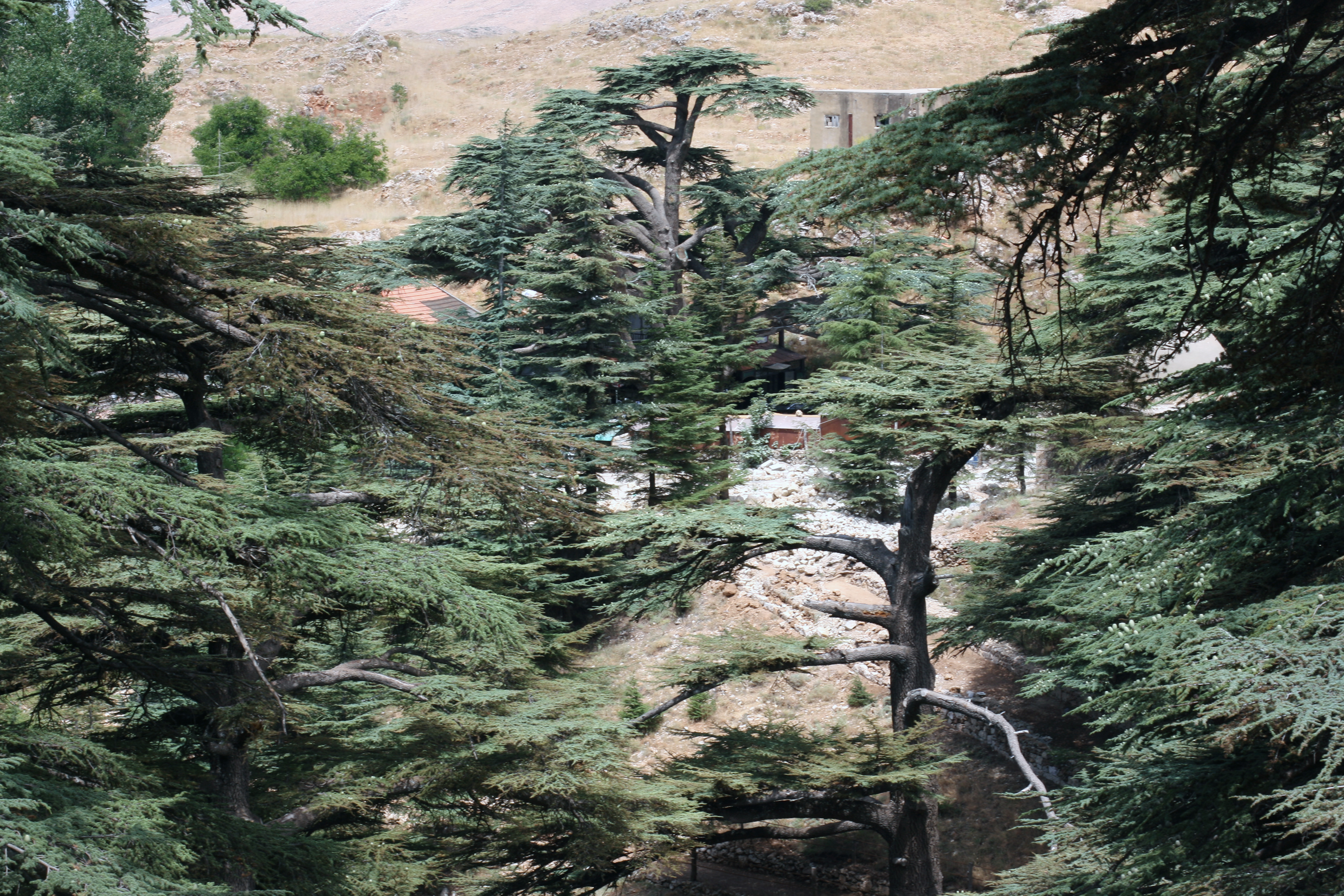 Forêt des Cèdres du Liban